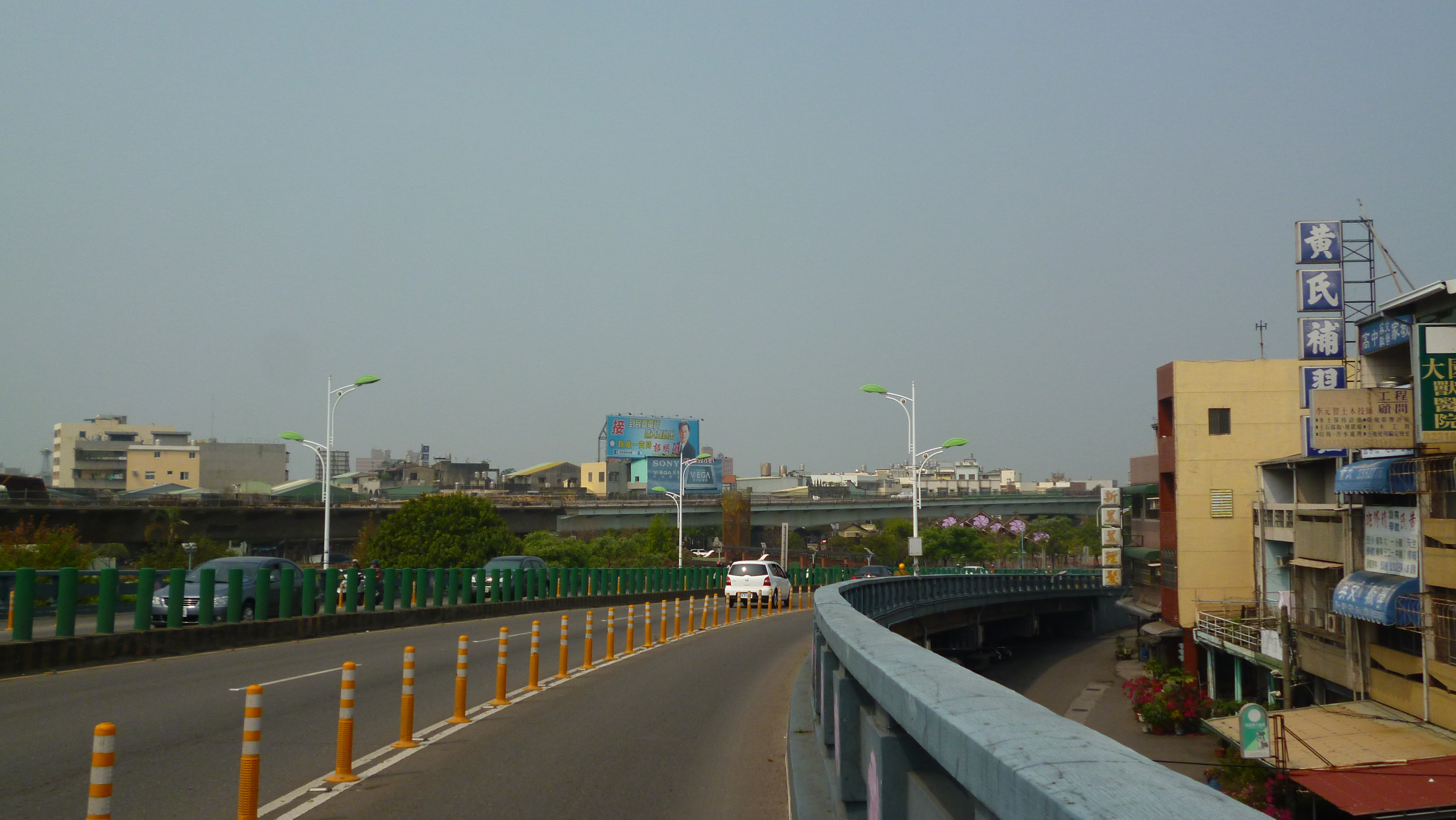 Gong Dao Yi-01